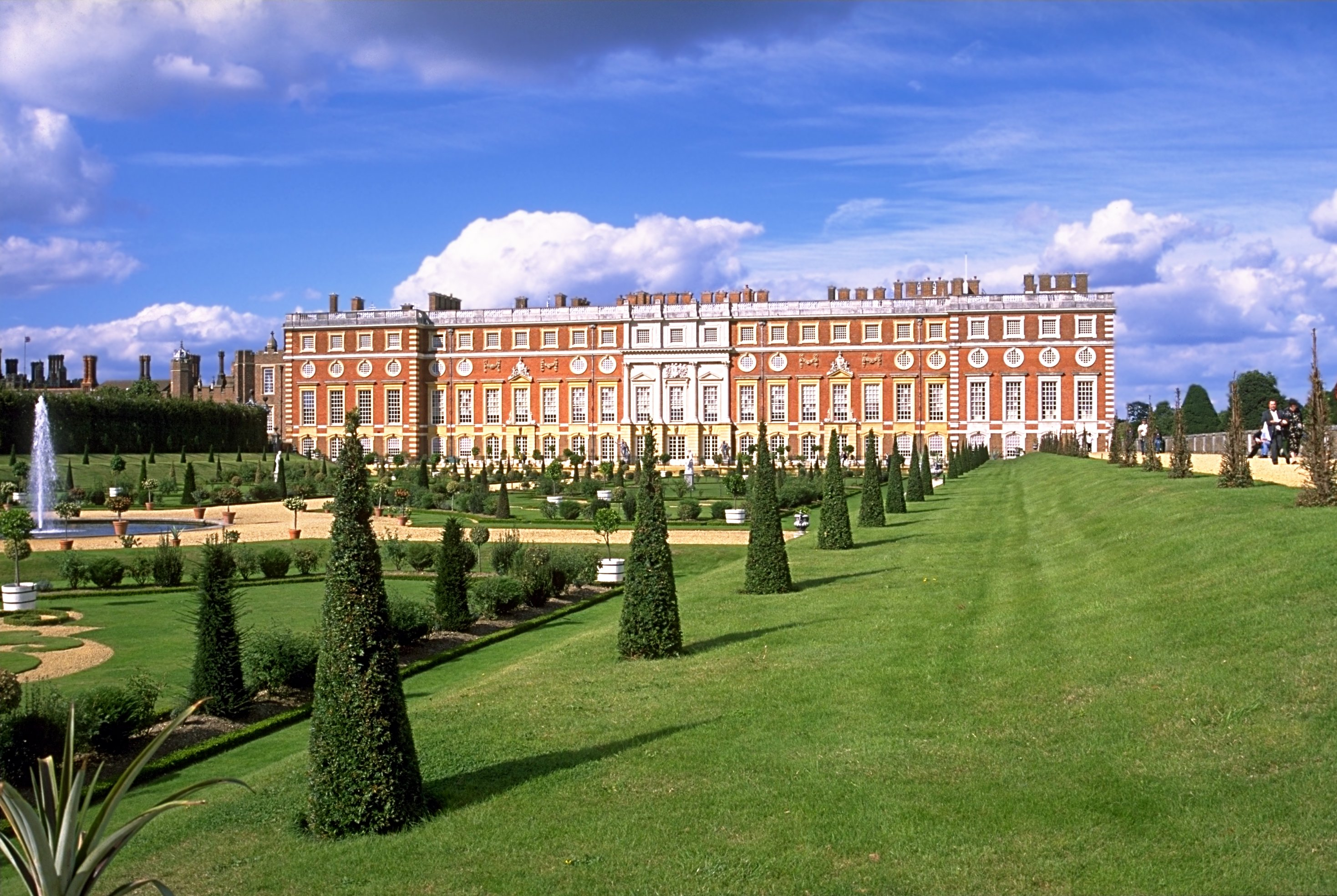 Hampton Court, near London Photo was taken using the following technique: Film: Fuji Velvia Lens: 4/35-70 Filter: none Body: Minolta Dynax 7 Support: none Image with Information in English Bild mit Informationen auf Deutsch